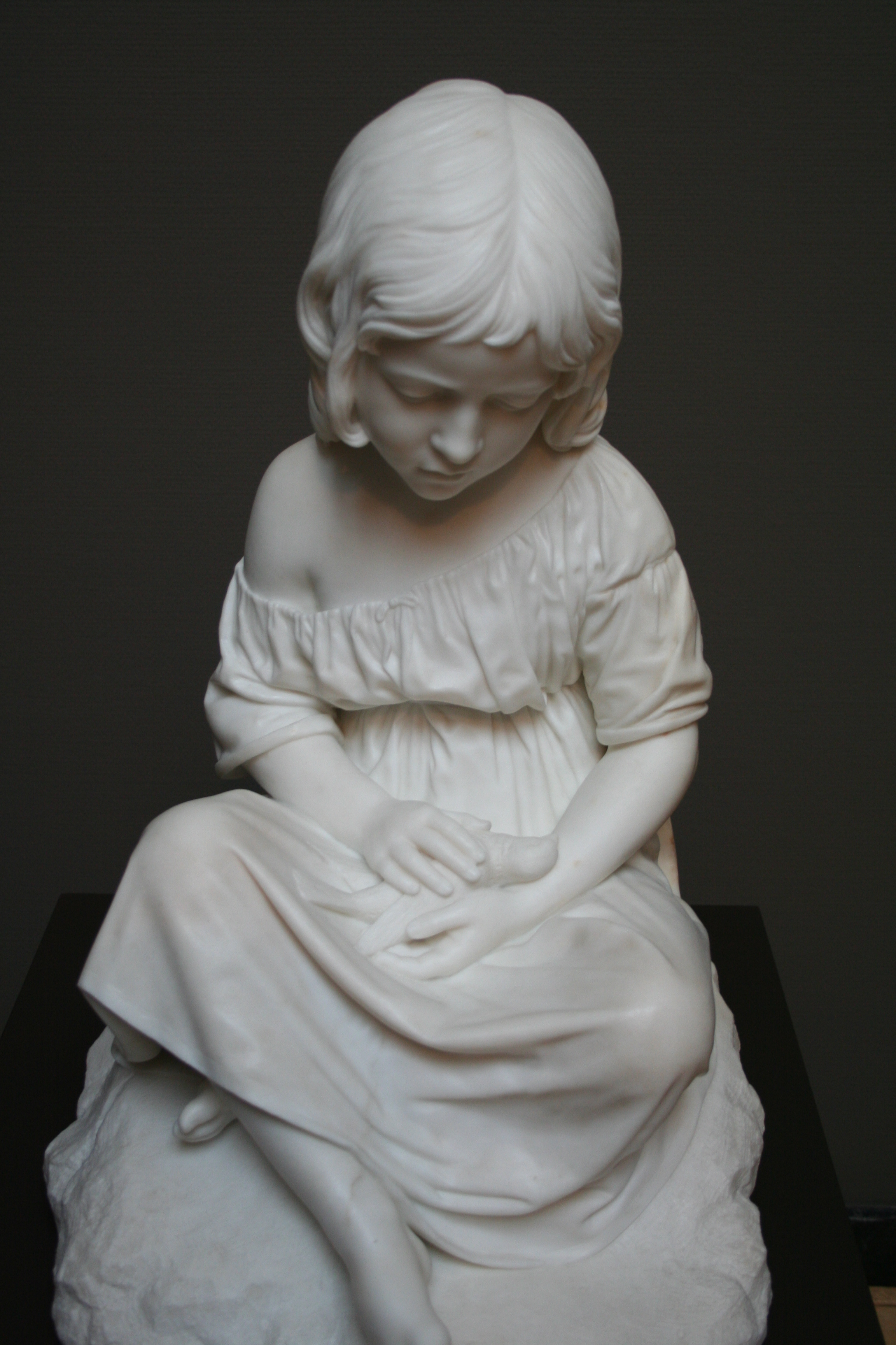 Little girl with a dead bird , Jens Adolph Jerichau, Ny Carlsberg Glyptotek